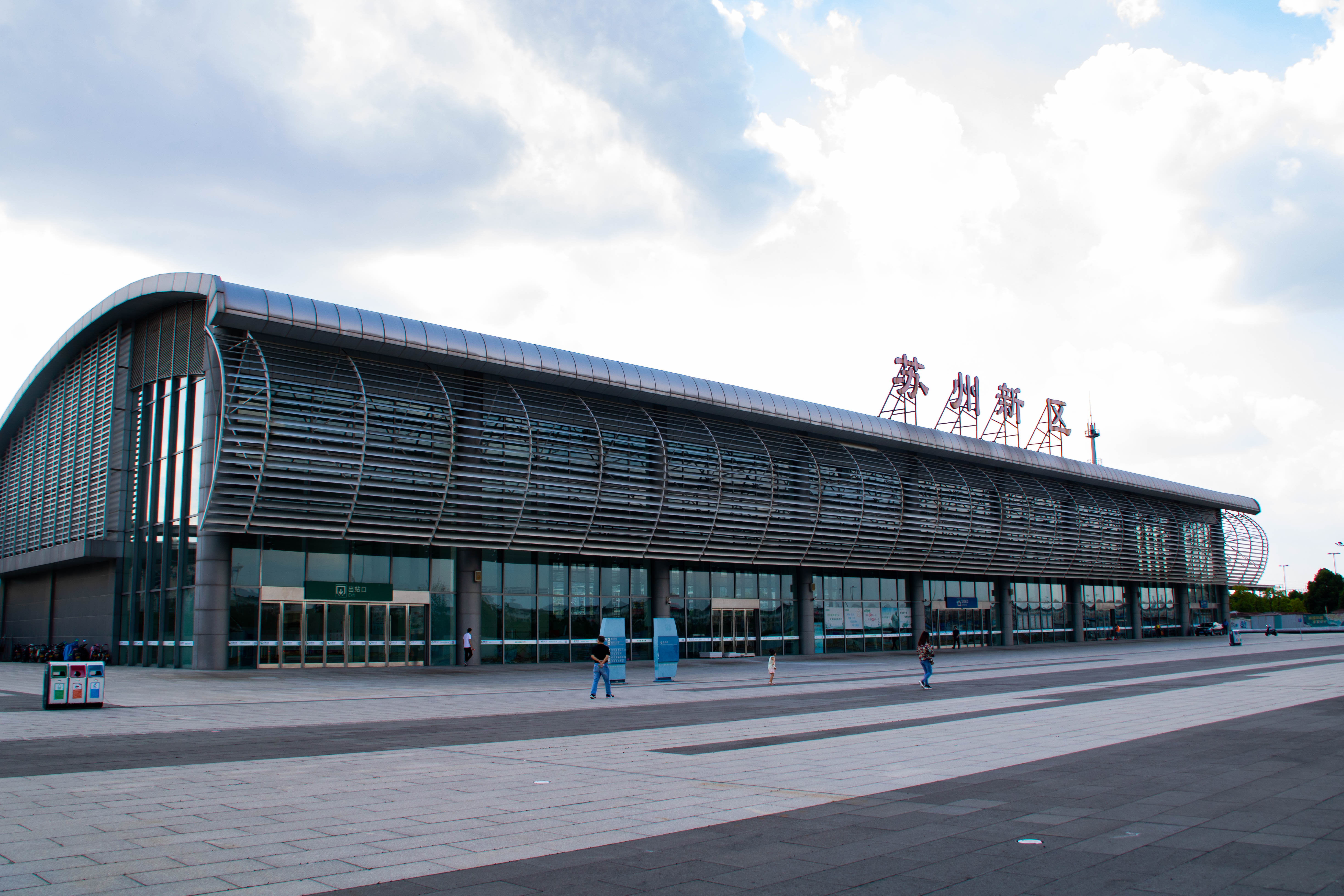 Station building in Suzhouxinqu Station